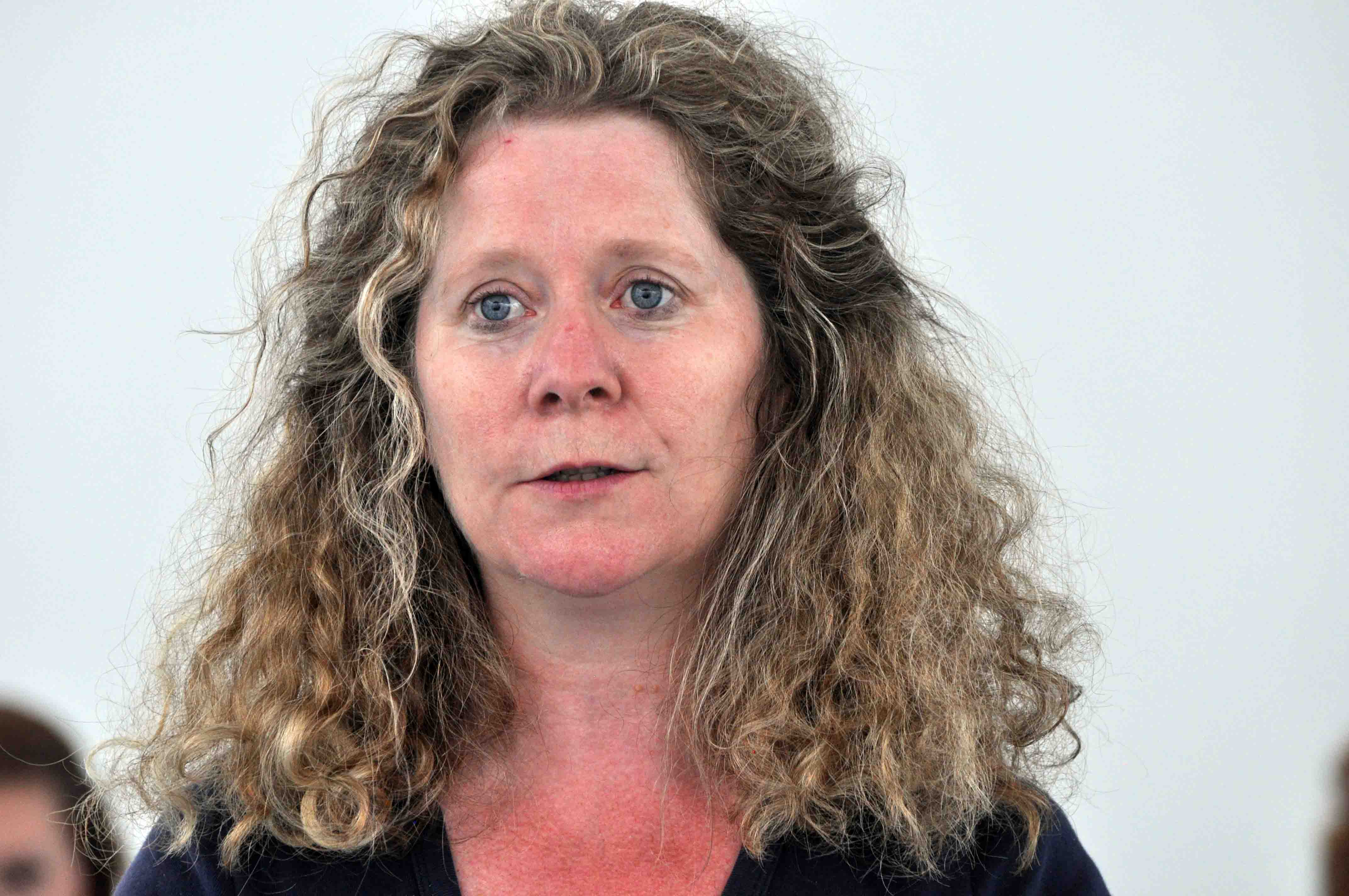 Photo taken by Jack Zibluk in 2012